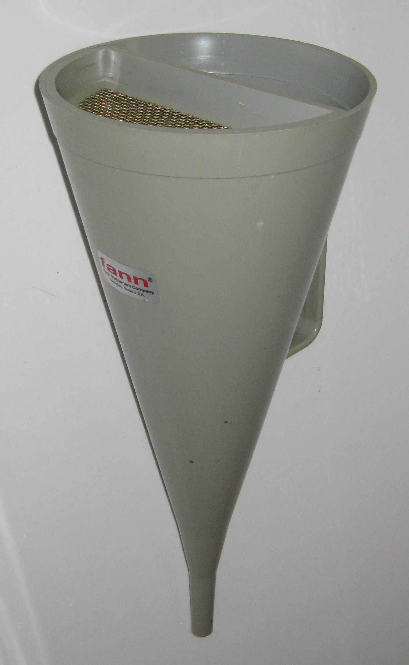 Marsh Funnel Viscometer model 201 manufactured by the Fann Instrument Company. Plastic with brass flow tube and mesh.